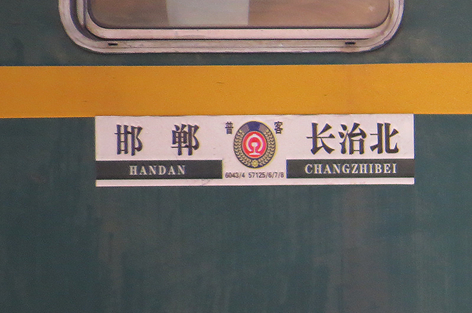 Handan to Changzhi North...One of its carriages is attached with 6437.